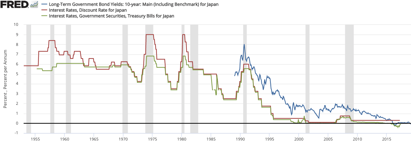 Japan interest rates